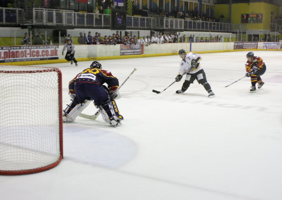 Watkins saved a breakaway to keep the score 5-5 in the last few minutes.